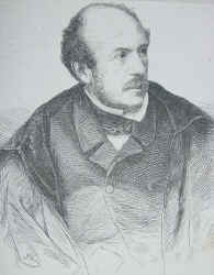 Johann Moritz Rugendas, German painter. Lith. by Neumann (Public domain)